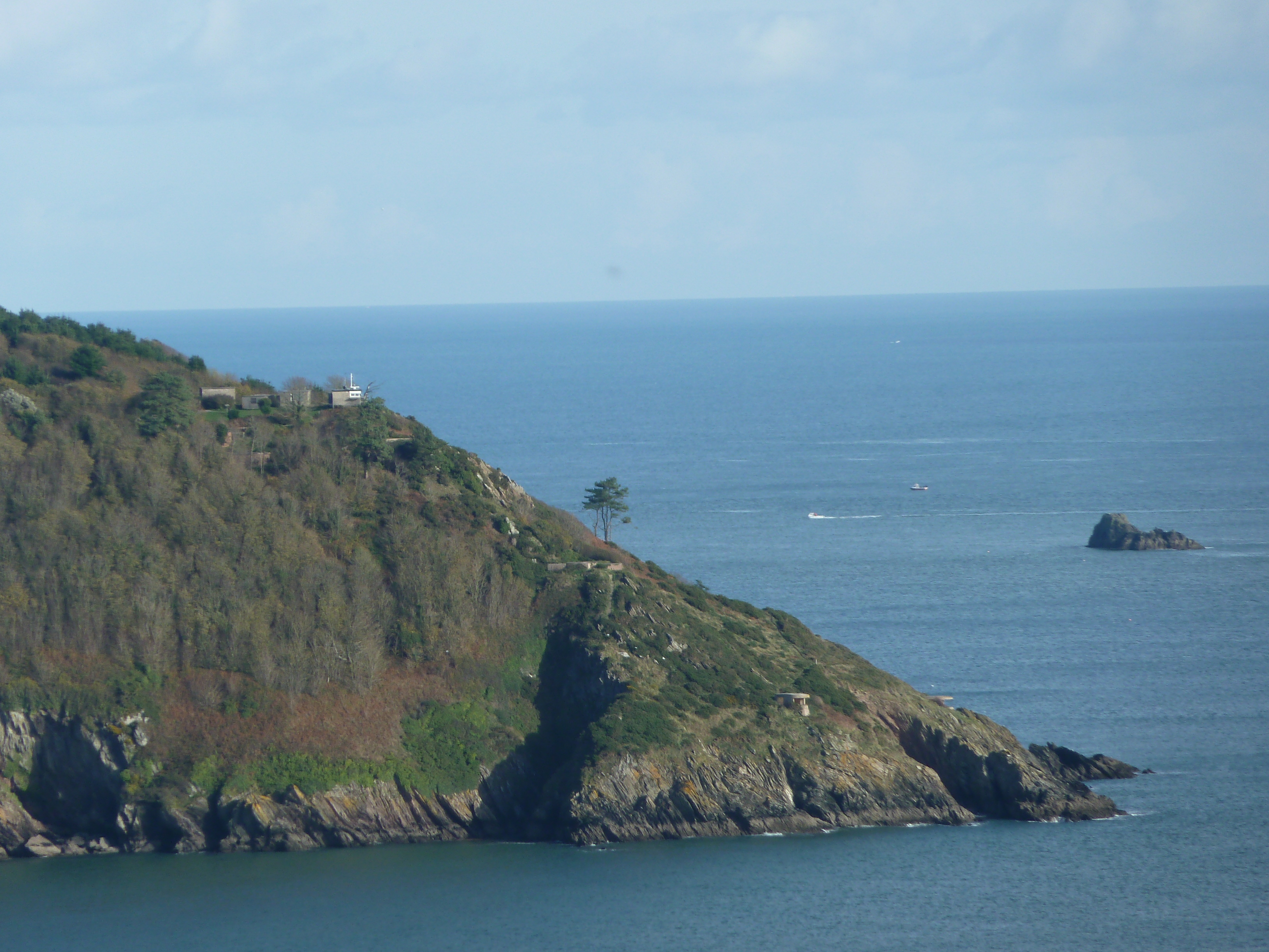 NCI Froward Point Taken from across the mouth of the River Dart. The lookout is part of the Brownstone Battery complex, a World War 2 battery, now derelict and owned by the National Trust. Clearly visible are the battery observation post (with the flagpole near the top of the headland), two searchlight positions as close to sea level as possible, one concrete gun emplacement, and sundry other buildings and concrete constructions